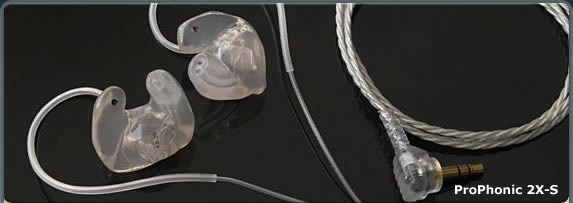 Sensaphonics 2xs hardwired in-ear monitor